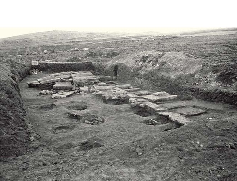 Monte Prama (Sardinia) Italy. Bedini excavation (1975)